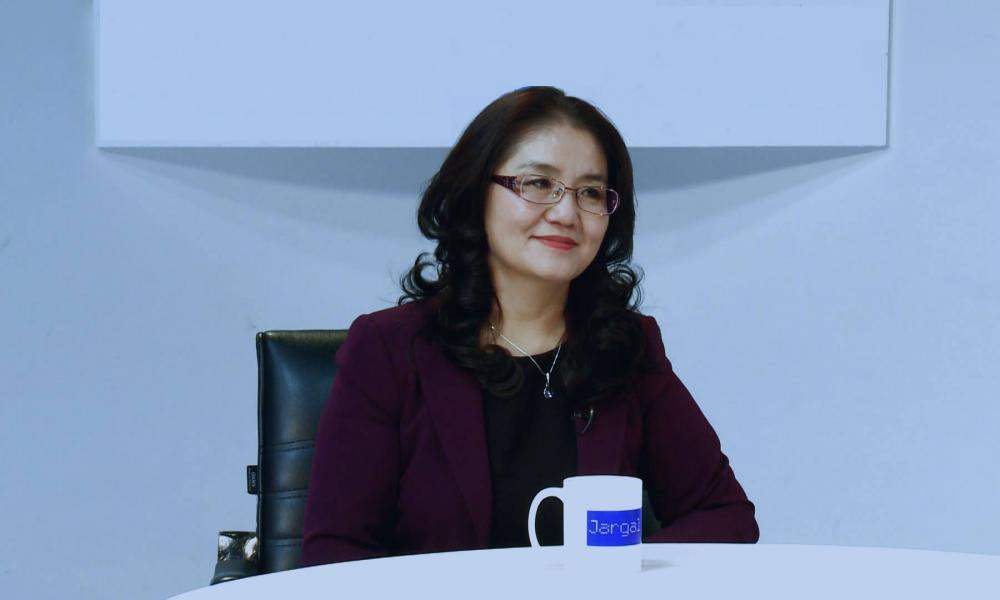 image